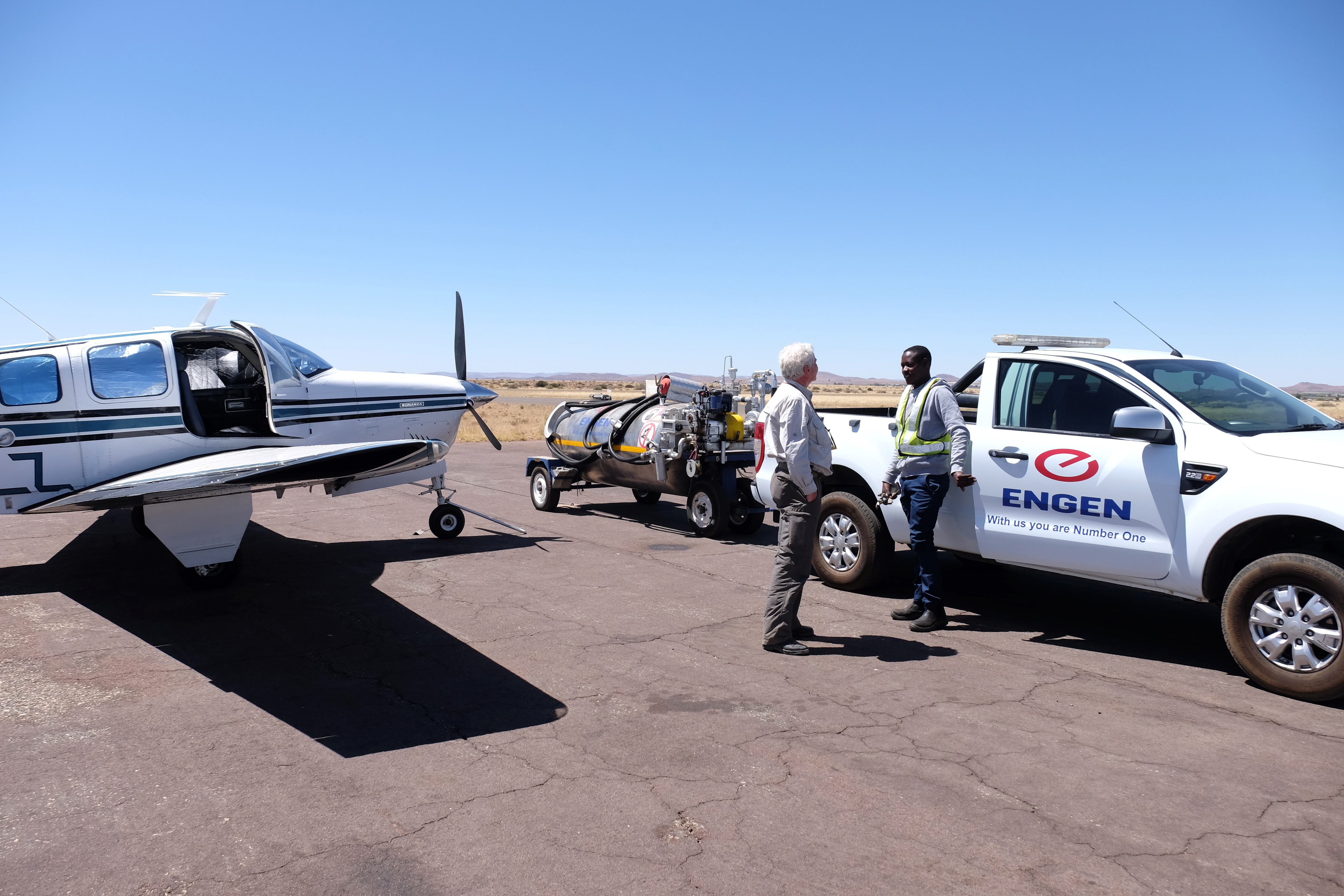 Refuelling a Beechcraft Bonanza in Upington (2016)